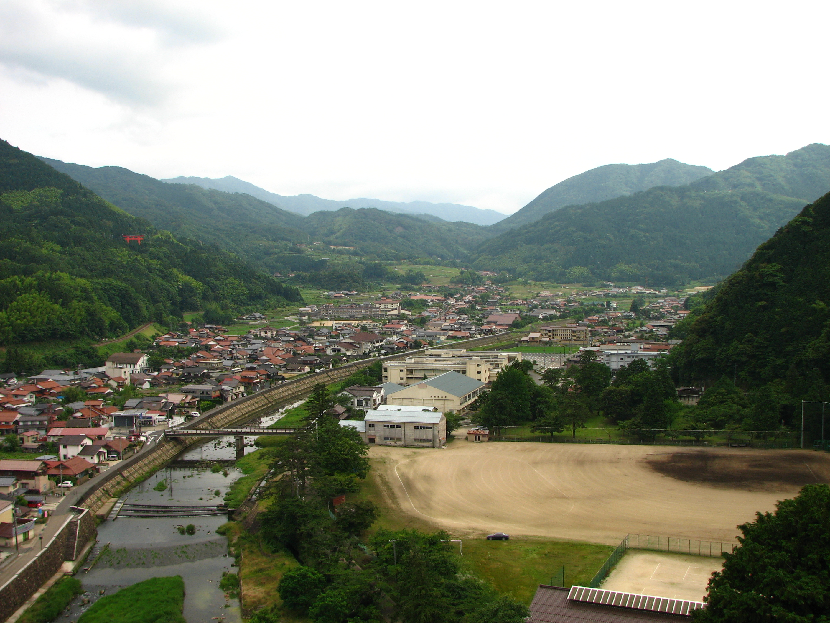 Tsuwano from Taikodani Inari-jinja